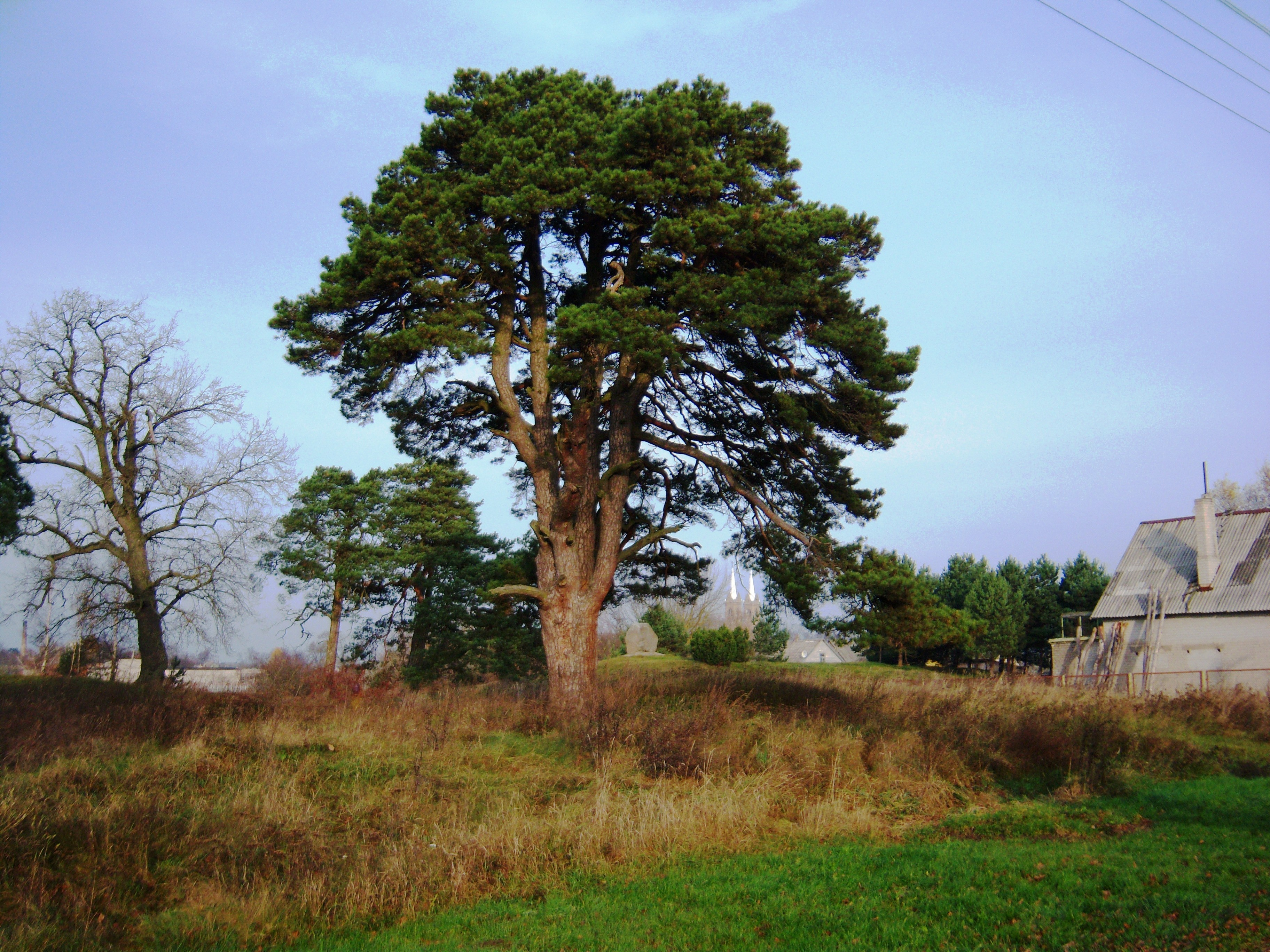 Švenčiuliškiai pine tree, Panevėžys District, Lithuania